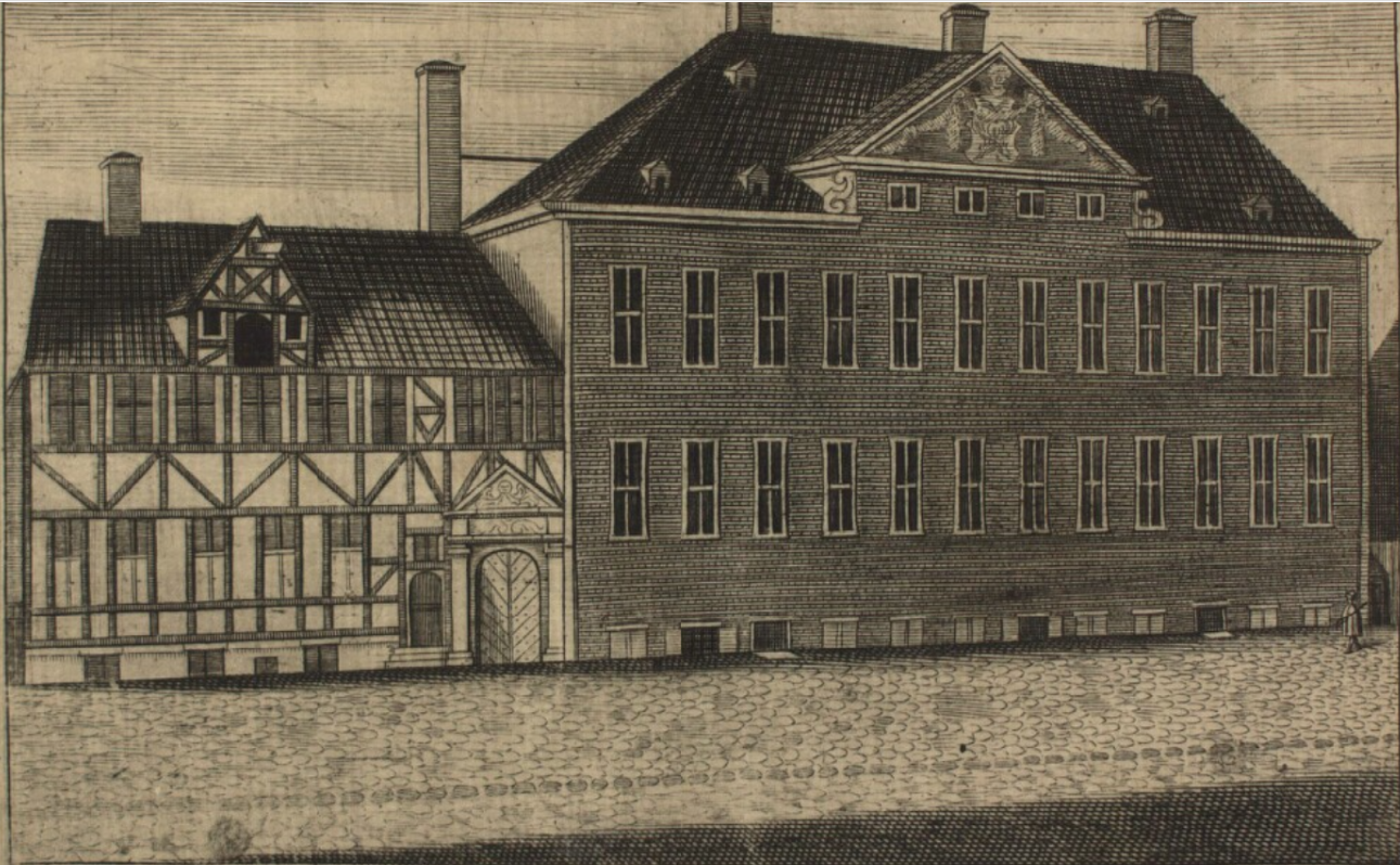 Plessens Palæ, Bredgade 37, built circa 1680